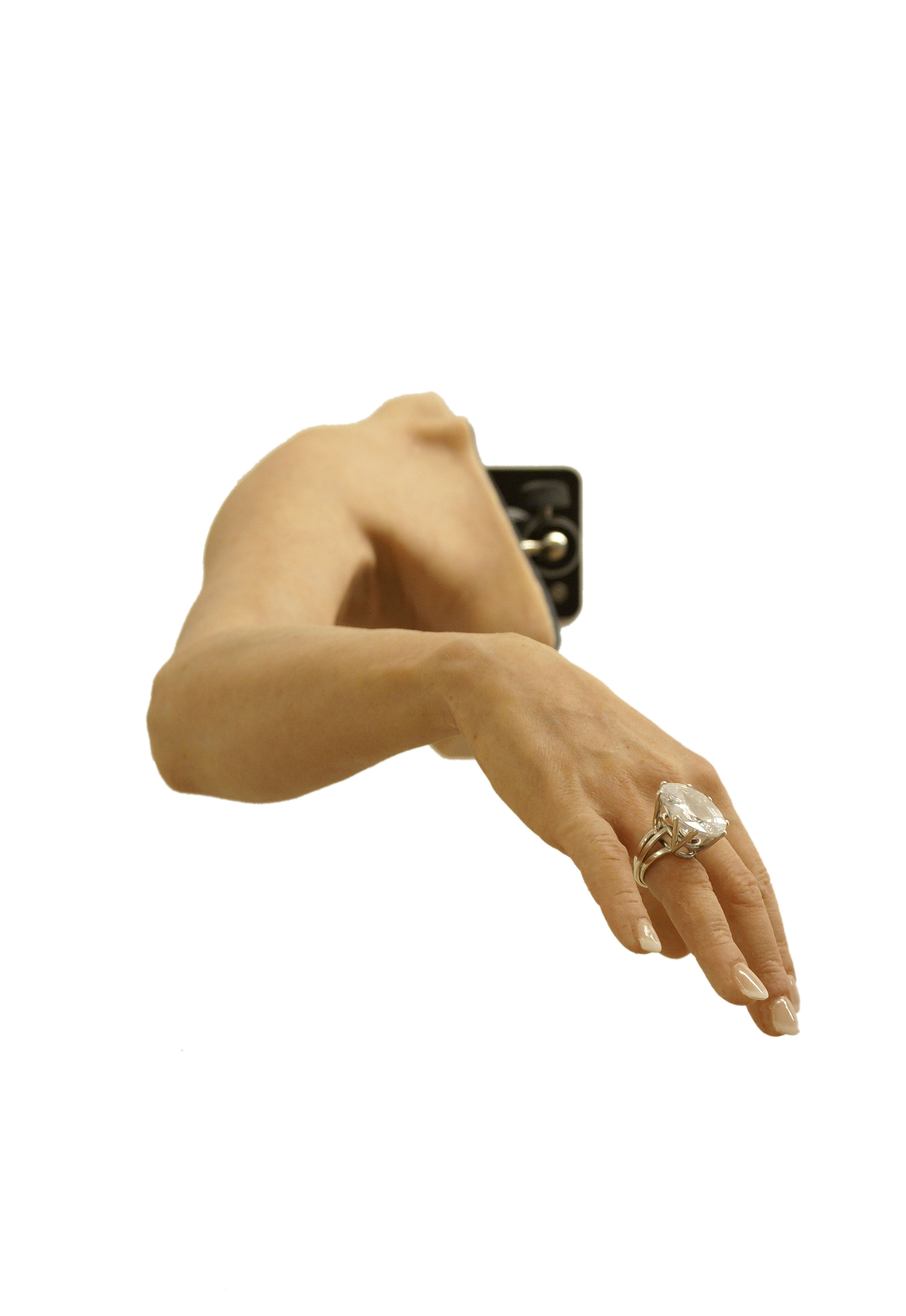 Sculpture by Tom Schmelzer: engagement ring being followed by a woman. Silicone, silicone paint, polyurethan, 925 silver, diamond, french nails, metal. approx. 80 x 25 x 25 cm